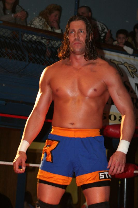 Stevie Richards wrestling for Top Rope Promotions in March 2009